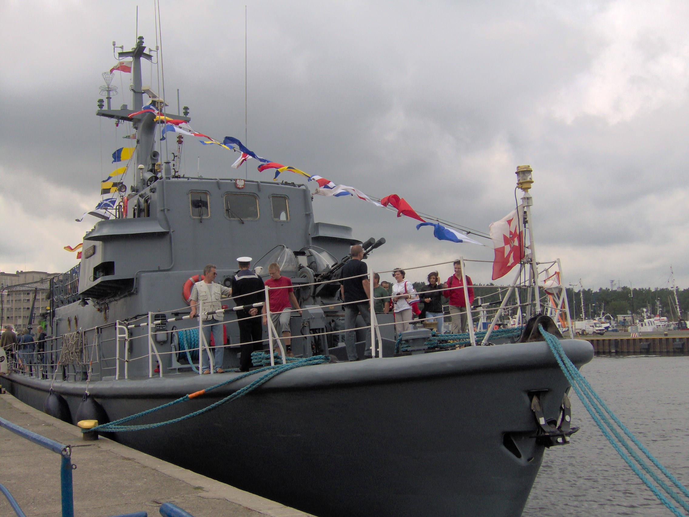 Polish minesweeper ORP Resko in Ustka